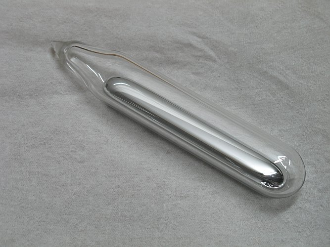 Mercury metal in an ampoule